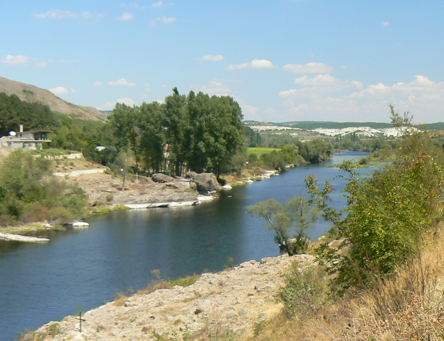 River Arda after dam „Studen kladenetz“ in the Rhodope mountain, Bulgaria